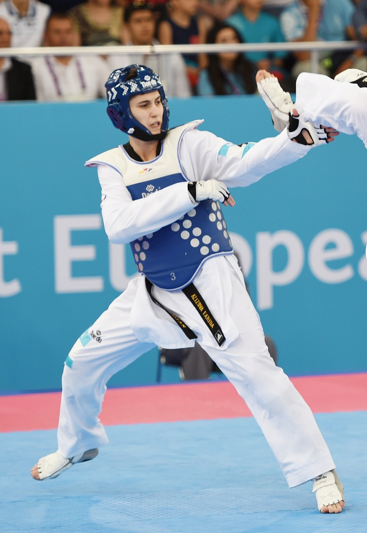 Taekwondo at the 2015 European Games